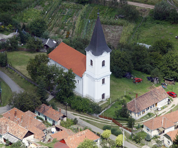 Alacska, Hungary, Borsod-Abaúj-Zemplén County, aerial photography